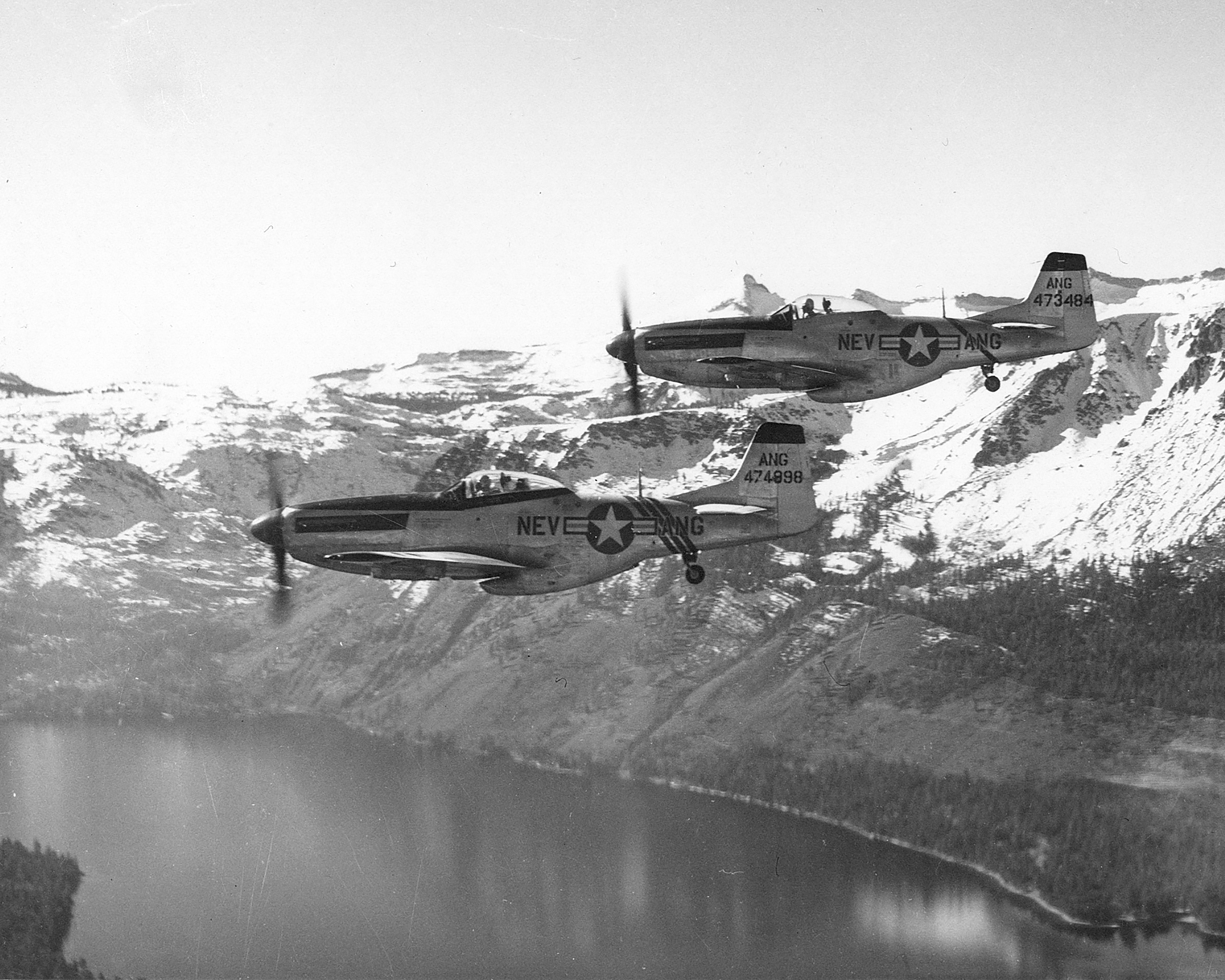 P-51